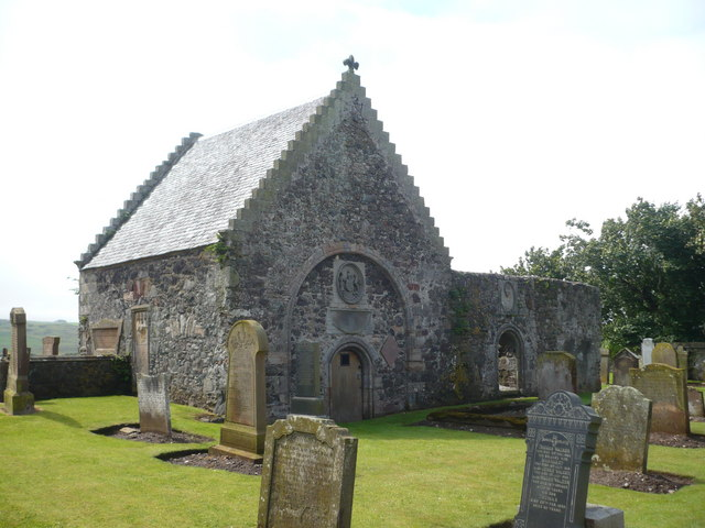 The Kennedy Mausoleum, Ballantrae On the corner of The Vennel and Main Street, next to the parish church.